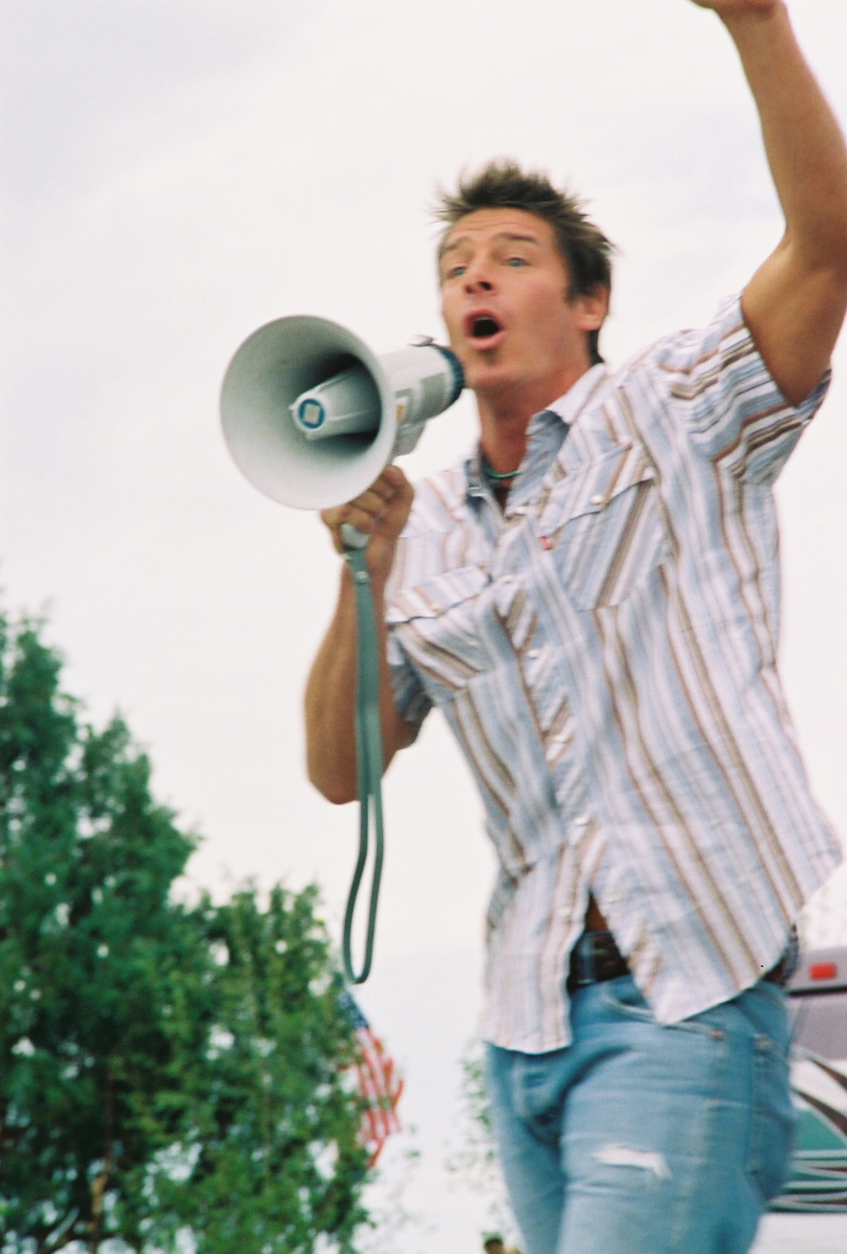 Ty Pennington